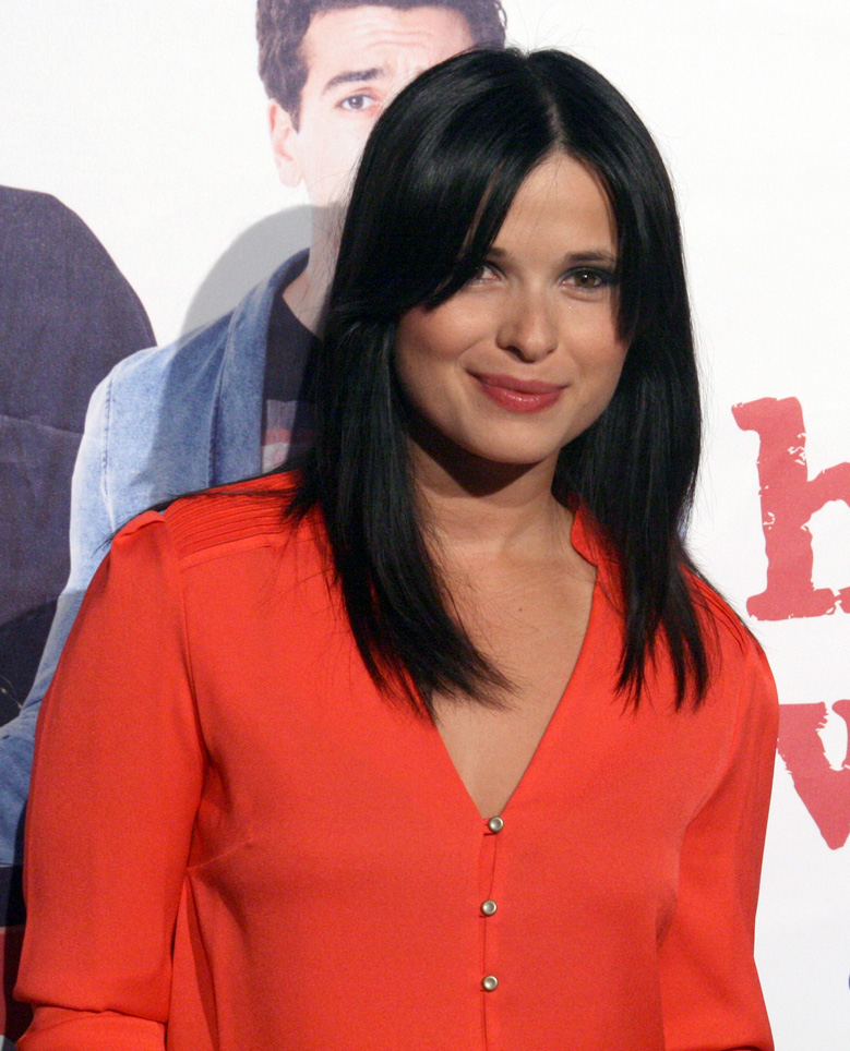 Anna Fischer at the Austrian premiere of Heiter bis wolkig at Urania cinema in Vienna, Austria.